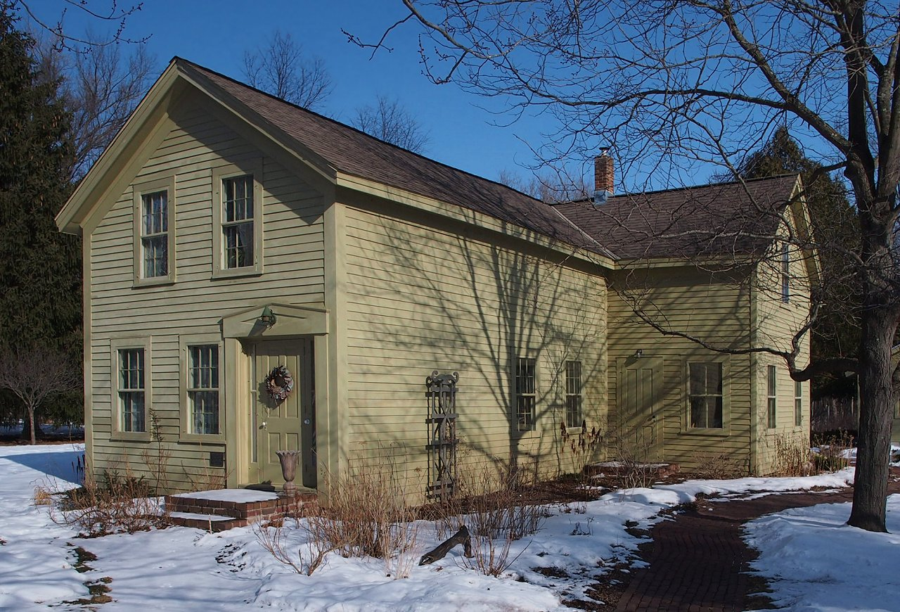 Erastus Bolles House, 1741 Stagecoach Trail, Afton, Minnesota, USA. Viewed from the southwest, taken with permission on private property.